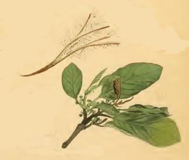 Stainton’s Natural History of the Tineina (1855–1873): Mompha subbistrigella a seed pod of Epilobium eaten by larva